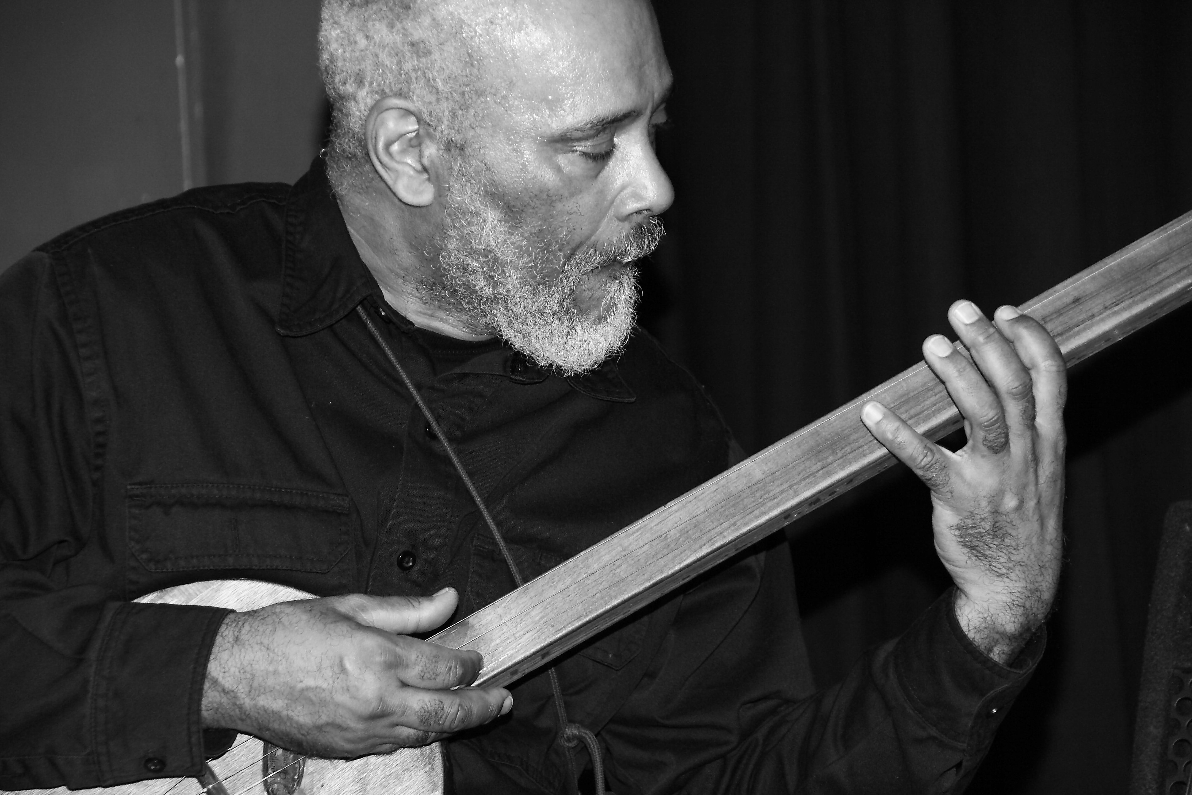 Cooper-Moore with Digital Primitives at Club W71.